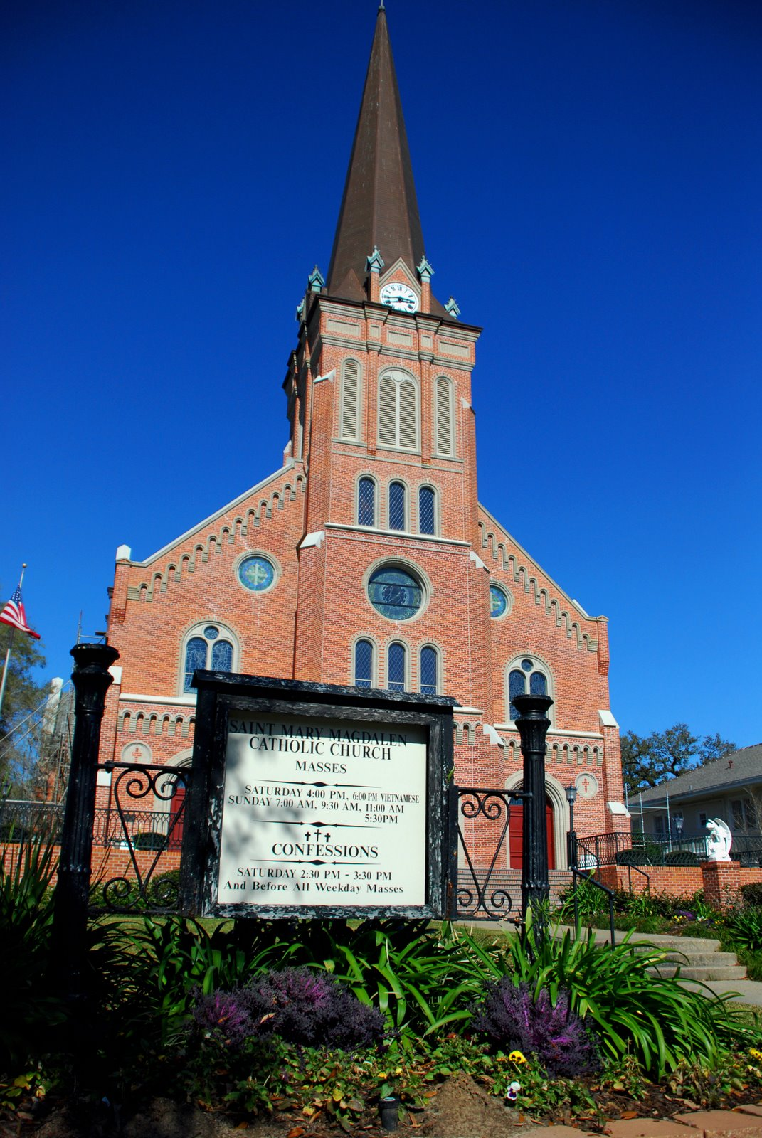 Saint Mary Magdalen catholic church in Abbeville, Louisiana, USA.